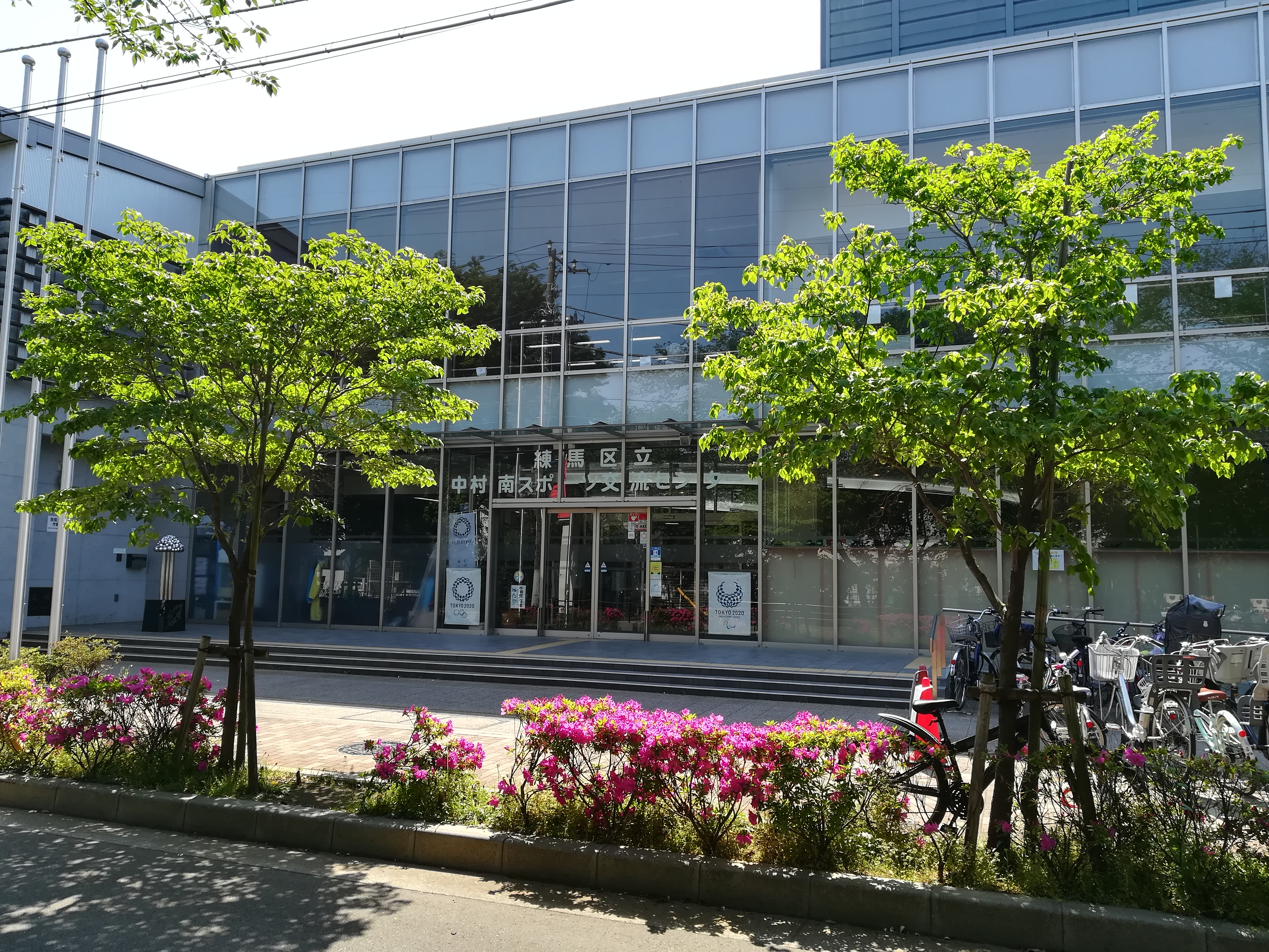 Nakamura Minami Sports Exchange Center.